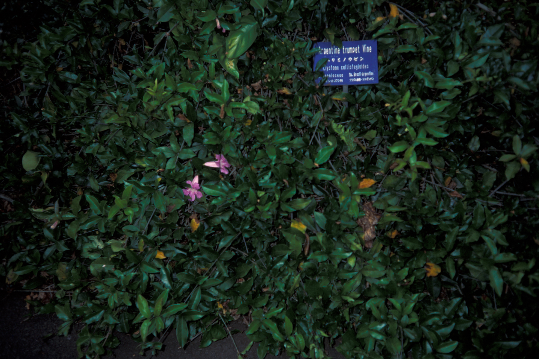 Clytostoma callistegioides (habit). Location: Maui, Enchanting Floral Gardens of Kula